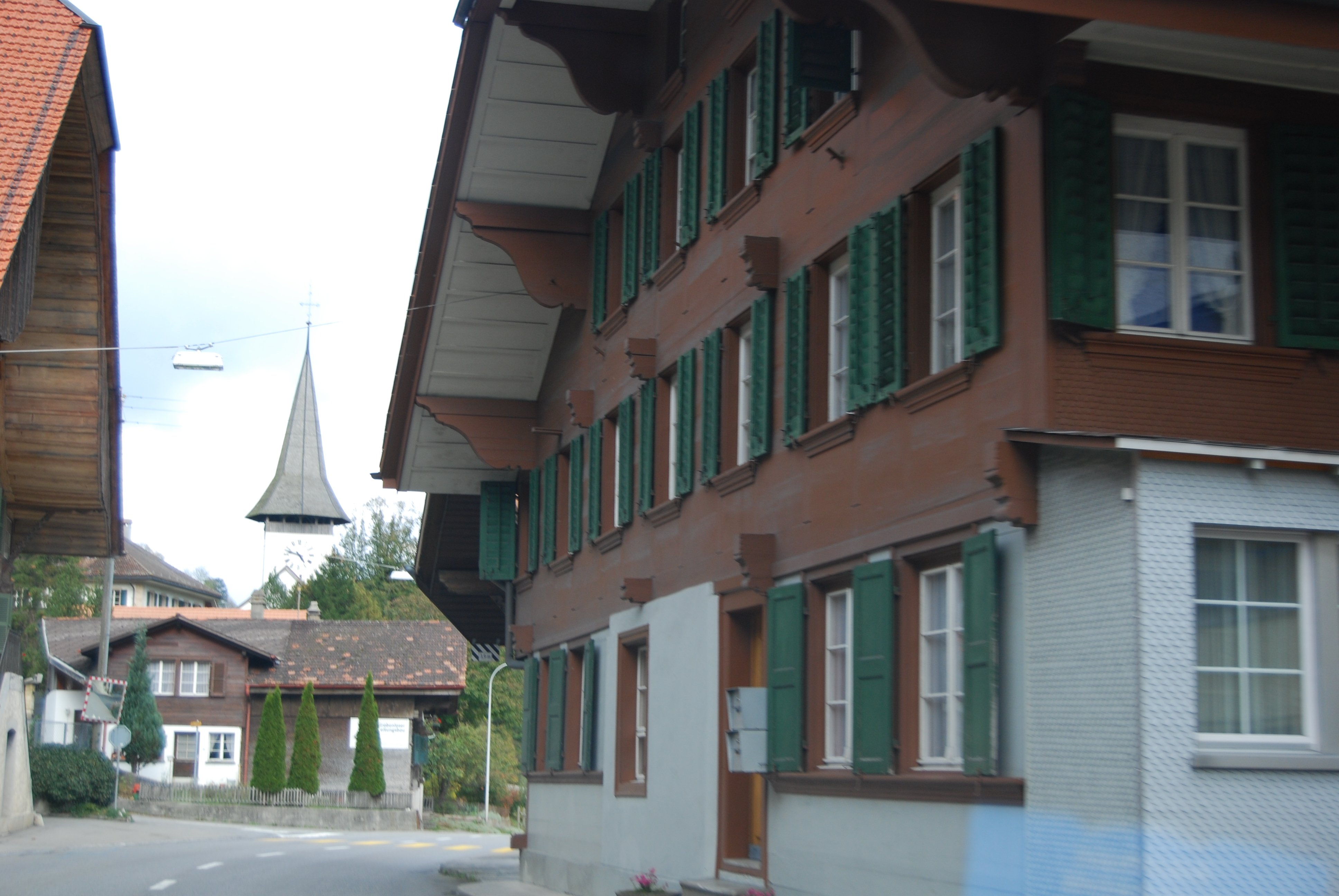 Church of Boltigen, canton of Bern, SwitzerlandEsperanto: Preĝejo de Boltigen, Kantono Berno, Svislando